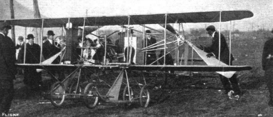 The "Baby Wright" Model R at Belmont Park in fall 1910.